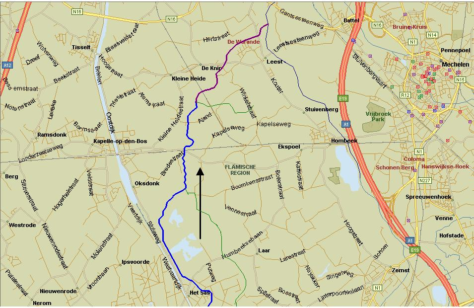 Map of the Aabeek, which later becomes the Molenbeek (brooks)